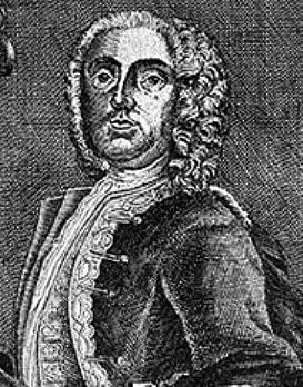 Joseph Ben Issachar Süßkind Oppenheimer (in short Joseph Süß Oppenheimer, called Jud Süß by antisemites)